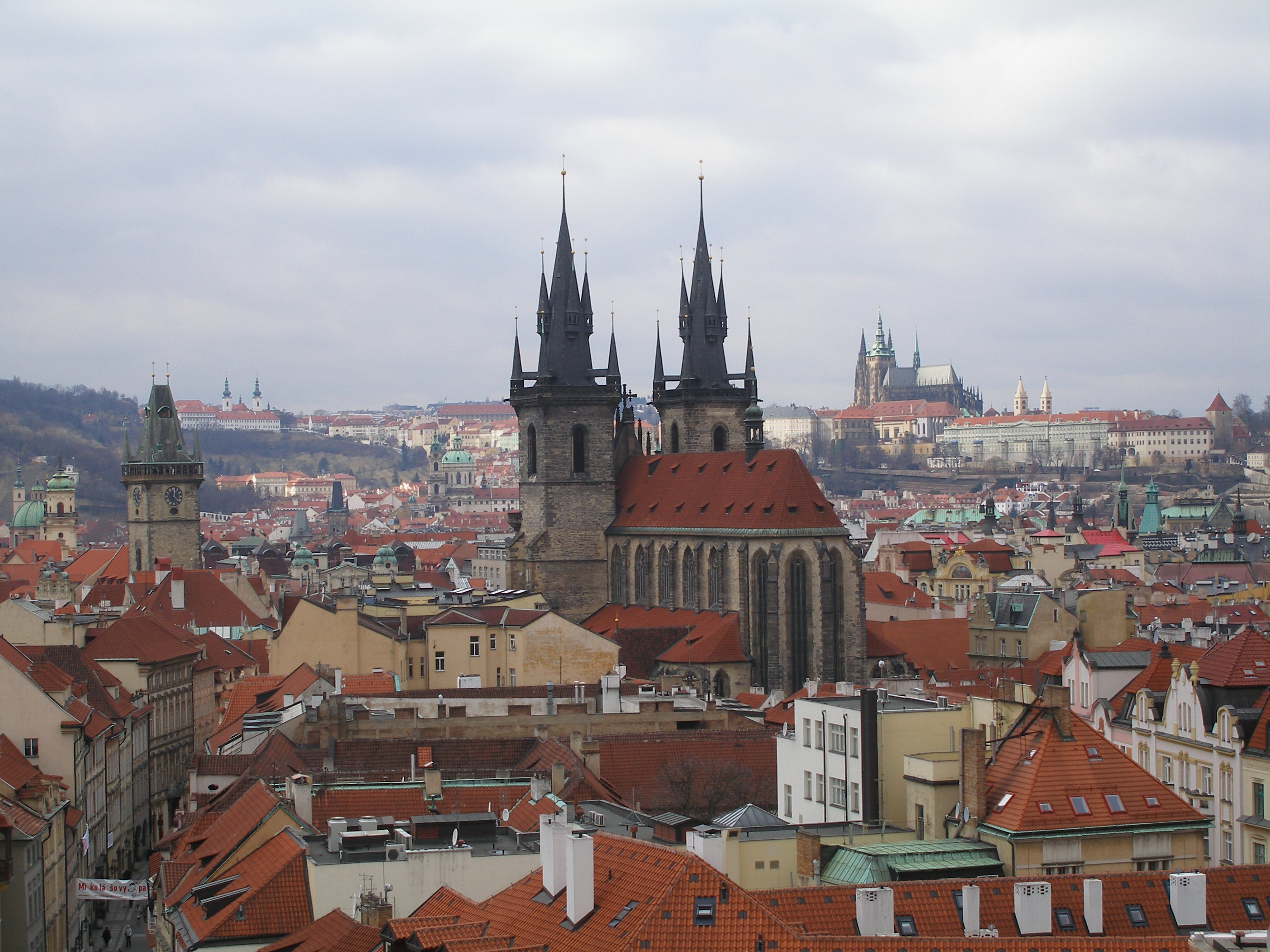 View to Prague Old Town from Prašná brána.